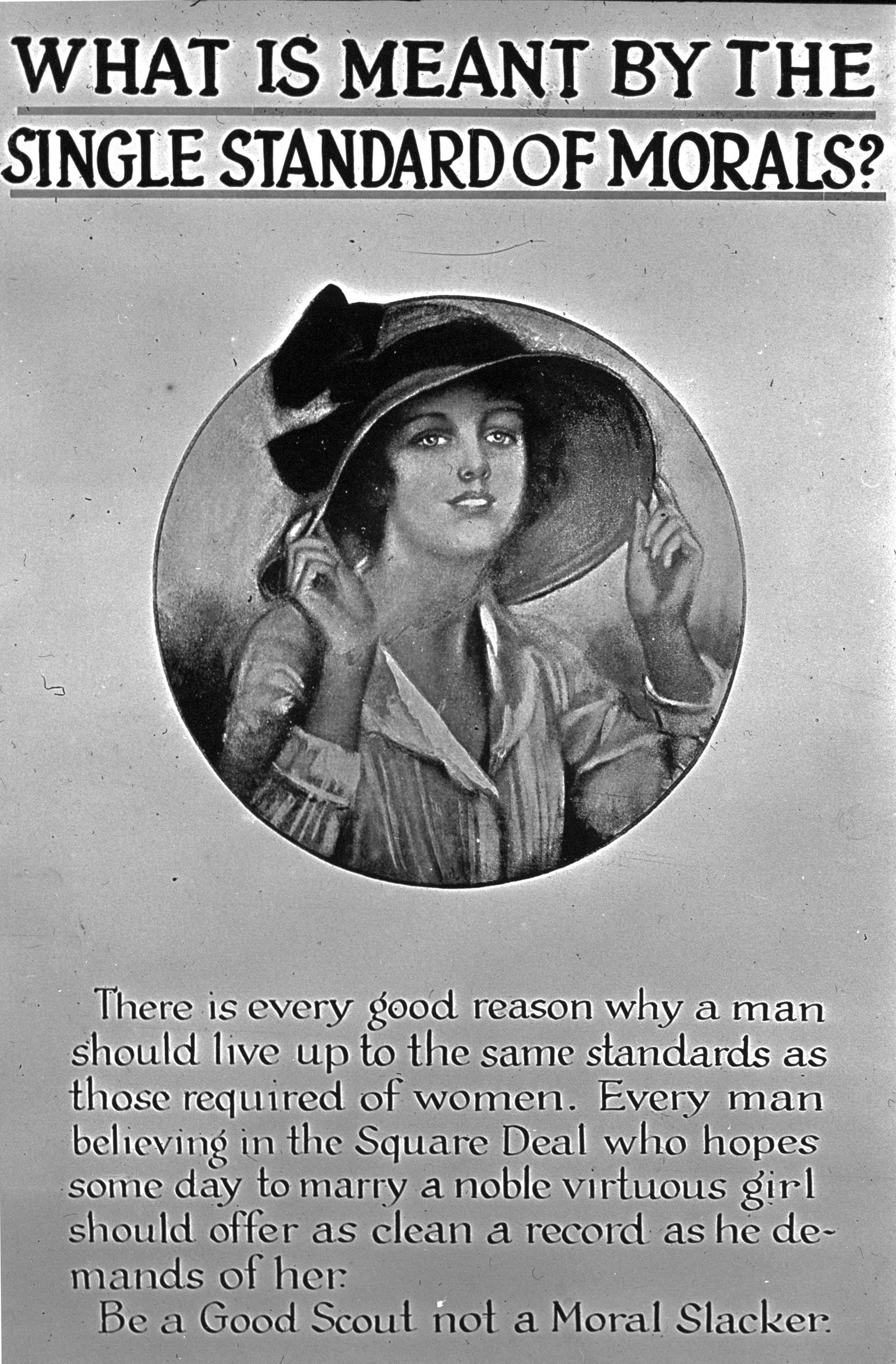 Provincial Archives of Alberta, A11822.